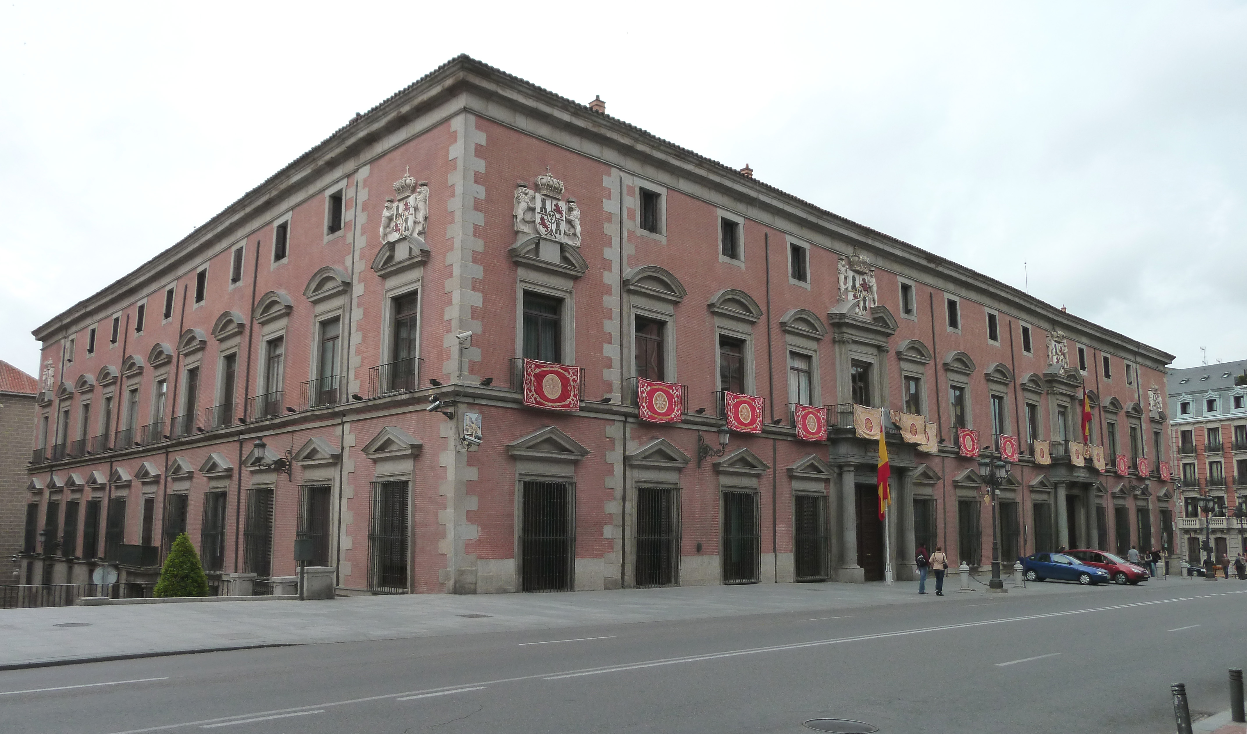 Façade of the Palace of the Duke of Uceda, at 79 Calle Mayor (street) in Centro district in Madrid (Spain). Projected in 1613 by Alonso de Turrillo and built between 1613 and 1625.